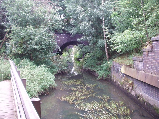 Bridges over Mother Drain